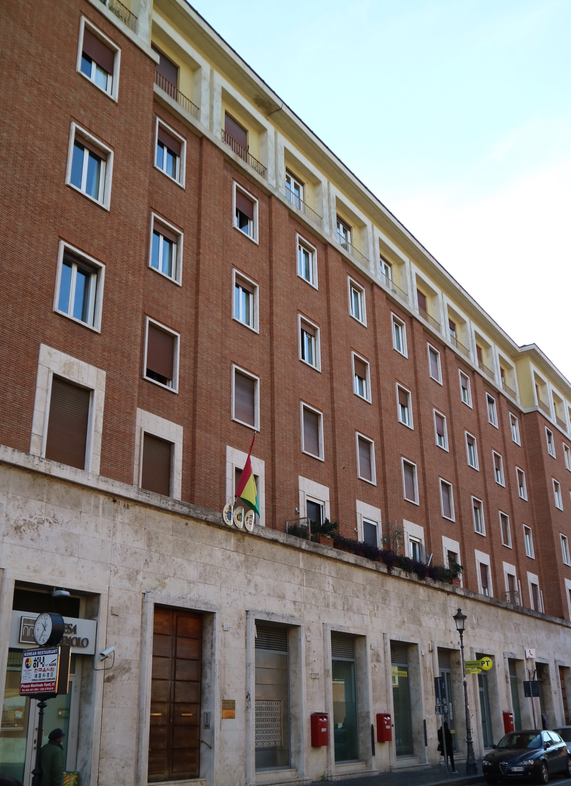 Bolivian Embassy to the Holy See.